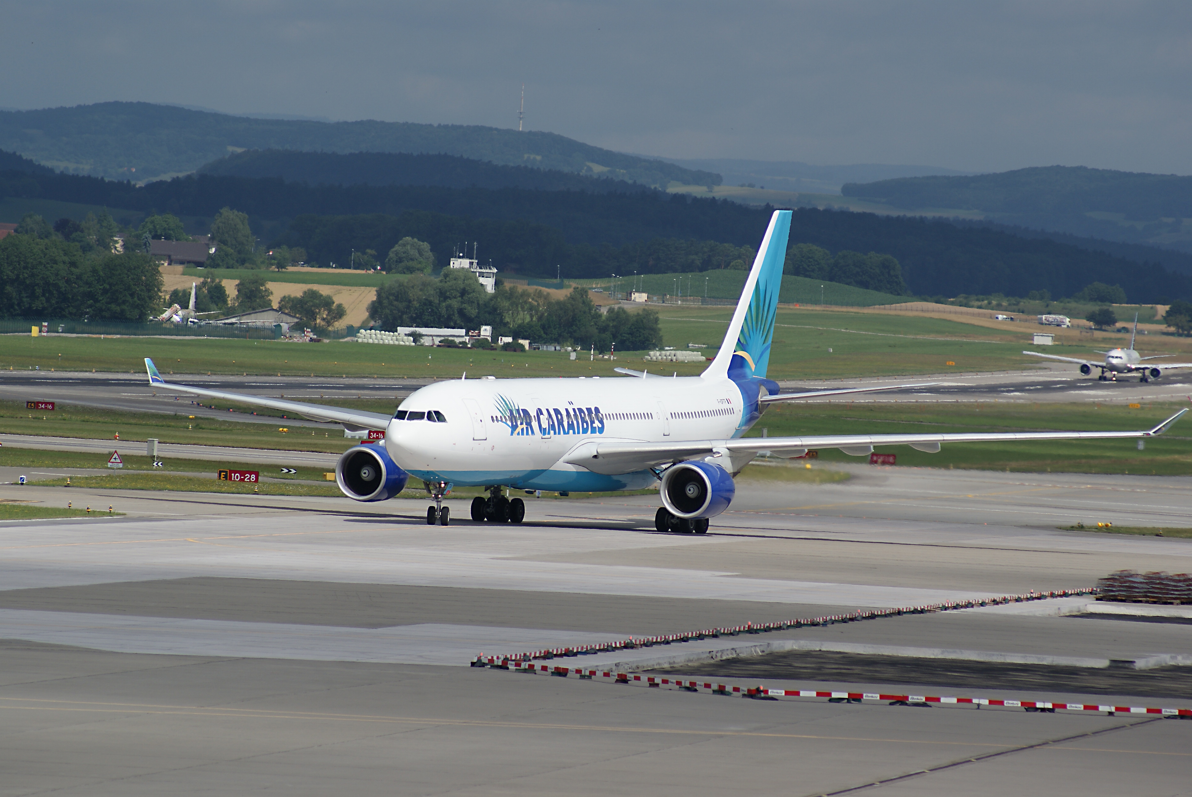 Airbus A330-200 at Zürich International Airport